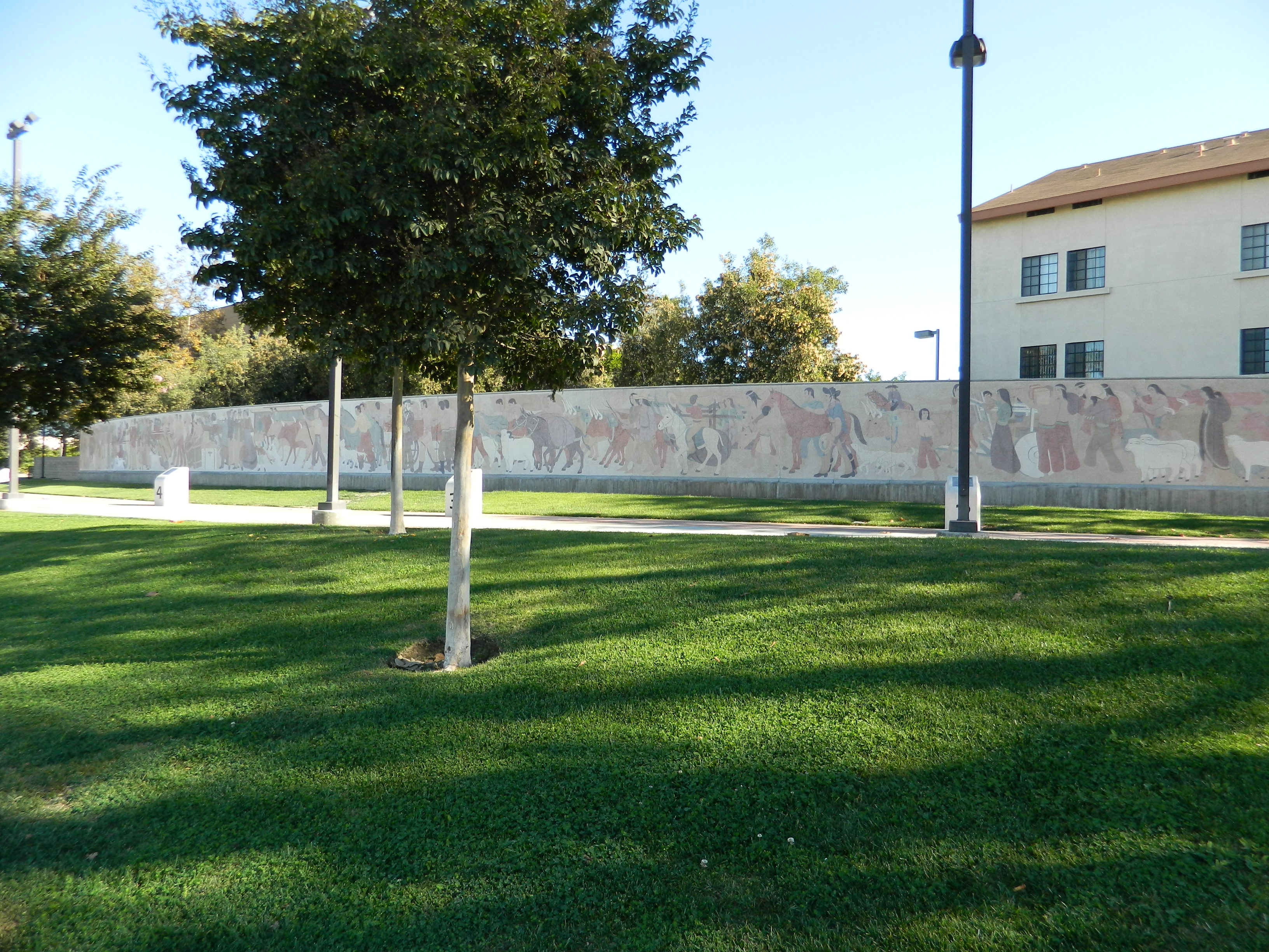 "The History of Transportation” WPA Mural by Helen LundebergInglewood Grevillea Art Park Created 1940, originally located at Centinela Park More information at The Living New DealThe mural “History of Transportation” is 8 feet high and 240 feet long, composed of 60 panels. It is made of cast concrete and terrazzo paneled walls and is one of the last examples of petrachrome mosaic art (that is made up of tiny stones). It is the largest petrachrome mural in the world. The mural was created by artist Helen Lundeberg with the support of the WPA’s Federal Art Project in 1939-42.Originally installed in the nearby Centinela Park, the mural was recently restored and moved to its current location at Grevillea Park. A series of metal plaques or “kiosks” at the site and pictured here explain the mural’s design, history and context.